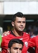 Zubayr Amiri before match with Japan, 2018 FIFA World Cup qualification, Azadi Stadium, Tehran